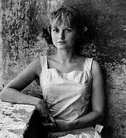 French actress Mijanou Bardot (Marie-Jeanne Bardot) leaning on a parapet facing Ponte Sant'Angelo. She is the sister of French actress Brigitte Bardot (Brigitte Anne Marie Bardot). Rome, 5th August 1958.